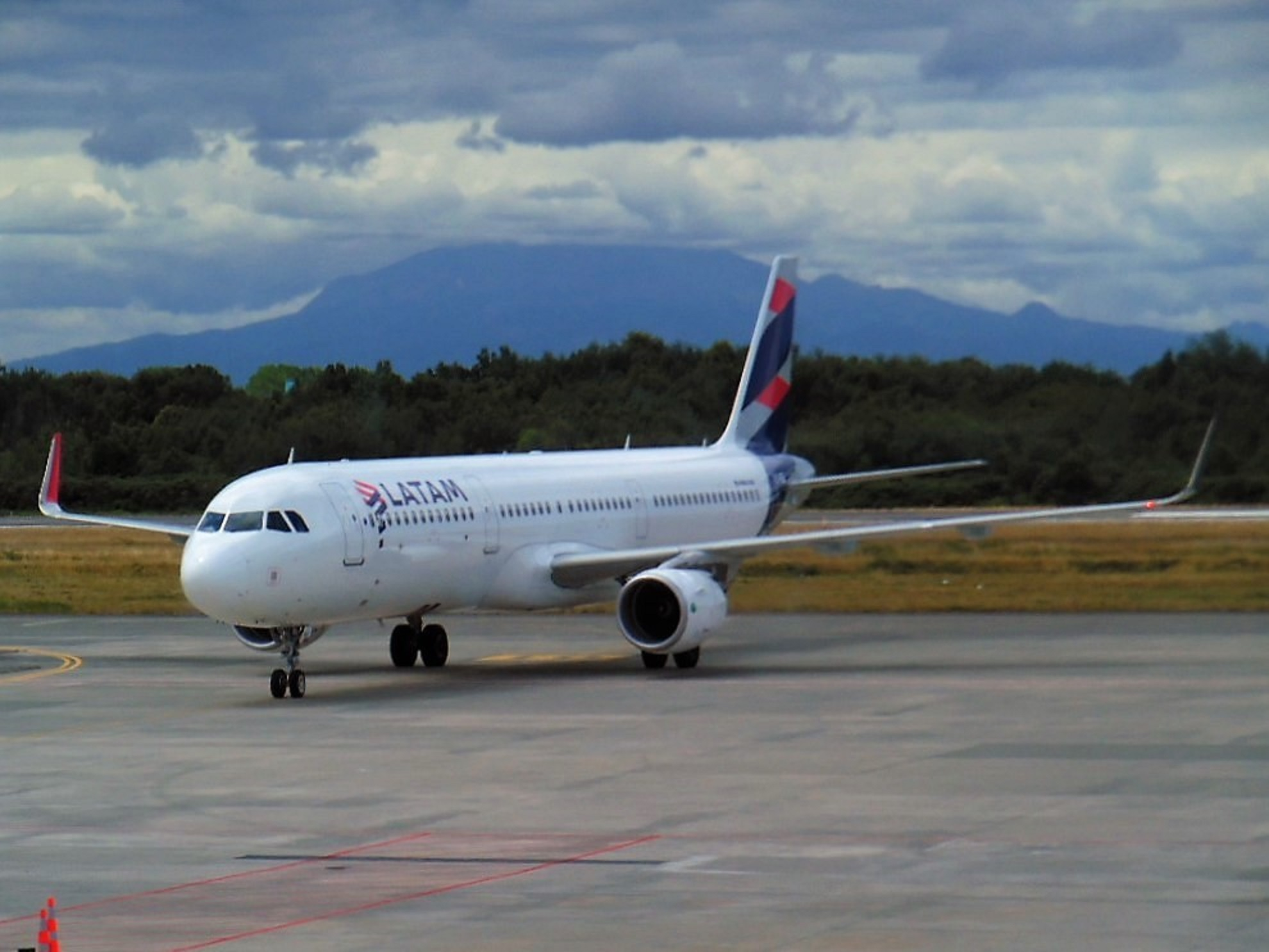 One of many LATAM Chile domestic aircraft in Puerto Montt El Tepual Airport